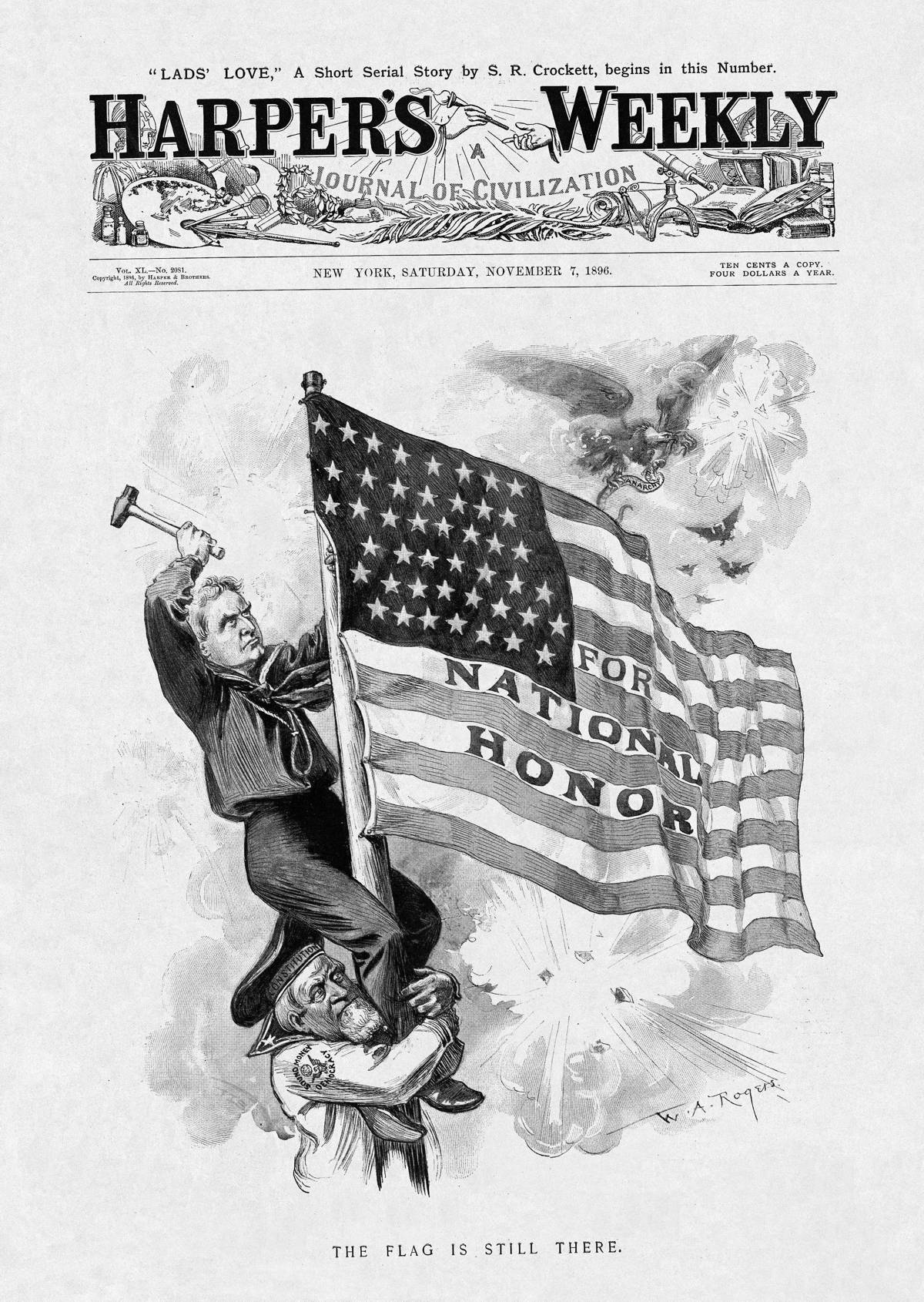 "The Flag Is Still There"